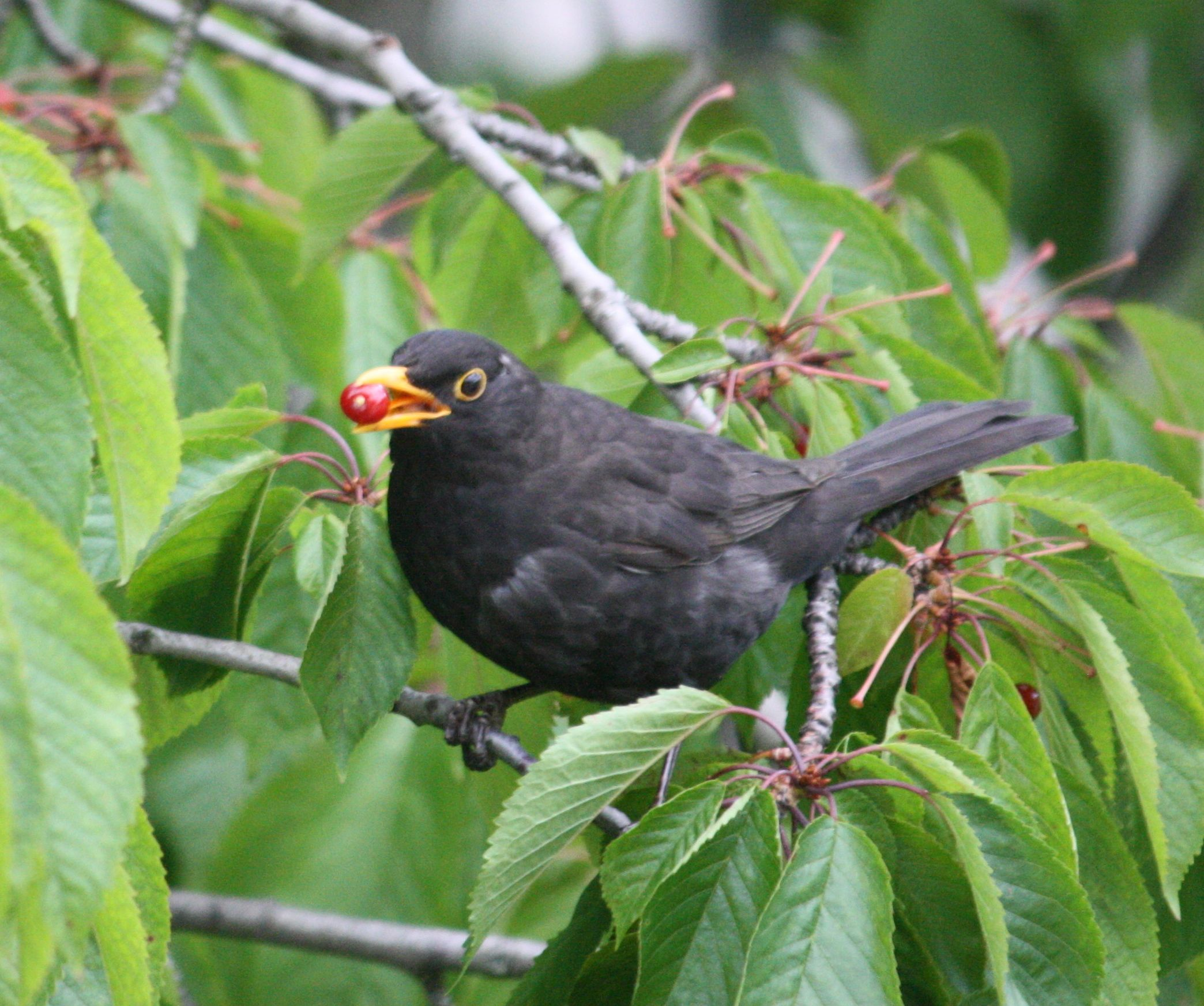 Male common blackbird with feed in Lausanne, Switzerland.